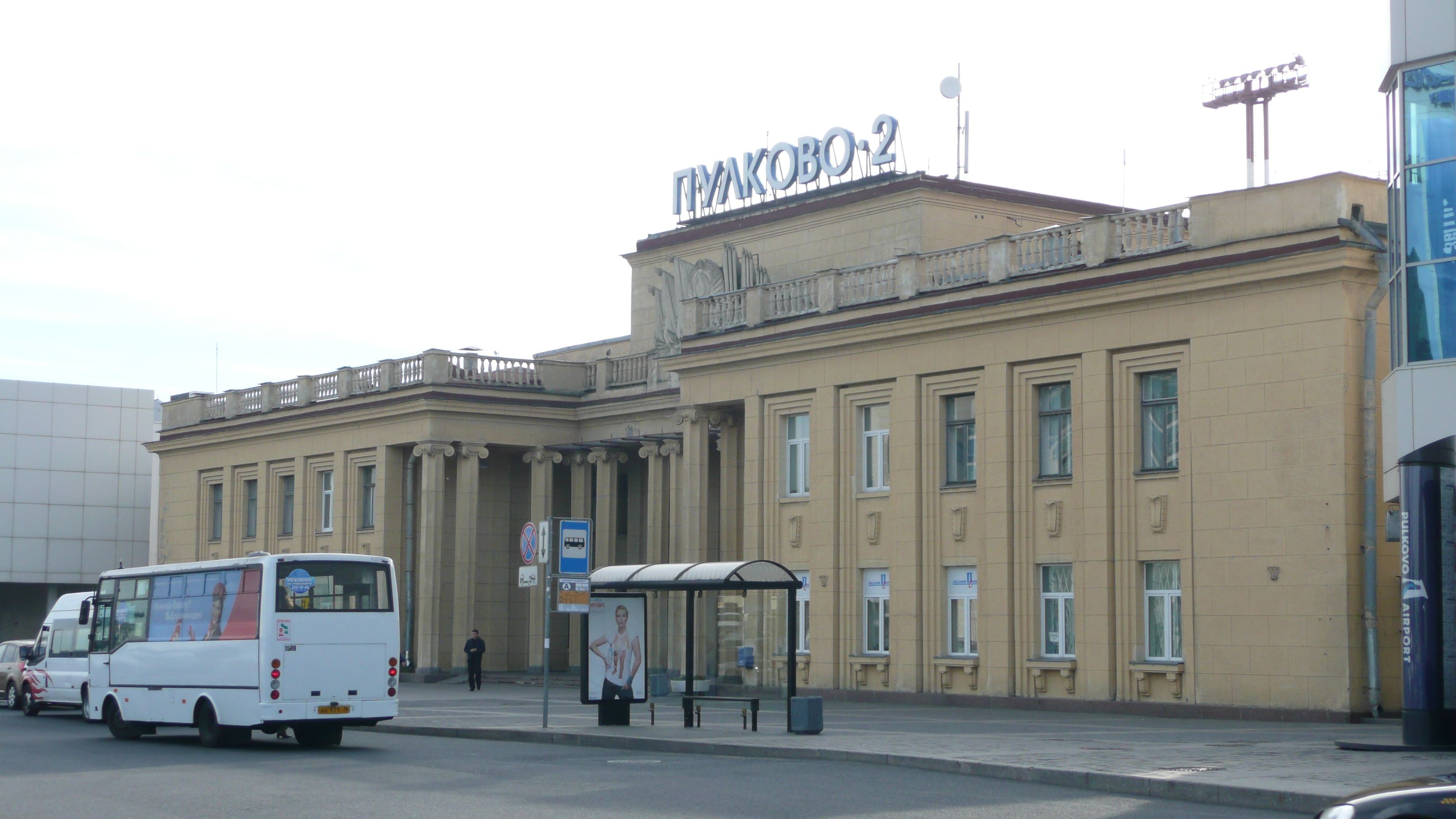 Airport Pulkovo 2, St. Petersburg, Old Building, International Flights